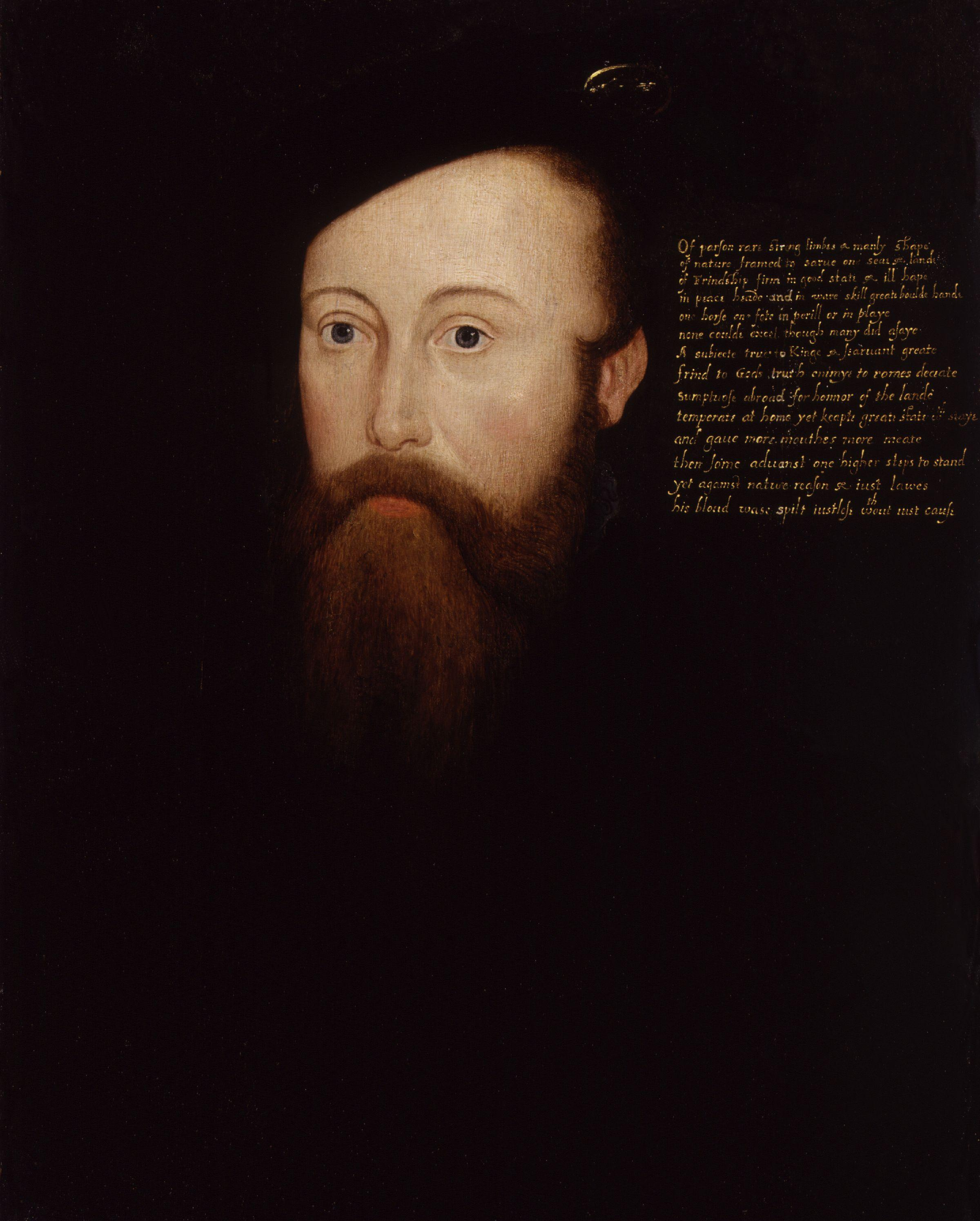 Thomas Seymour, Baron Seymour, by unknown artist. All images in this batch have an unknown author, but there is strong evidence it was first published before 1923 (based mainly on the NPG's estimated date of the work).